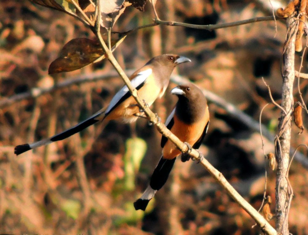 A Pair Of Rufous Treepie In Mangaon, Maharashtra.